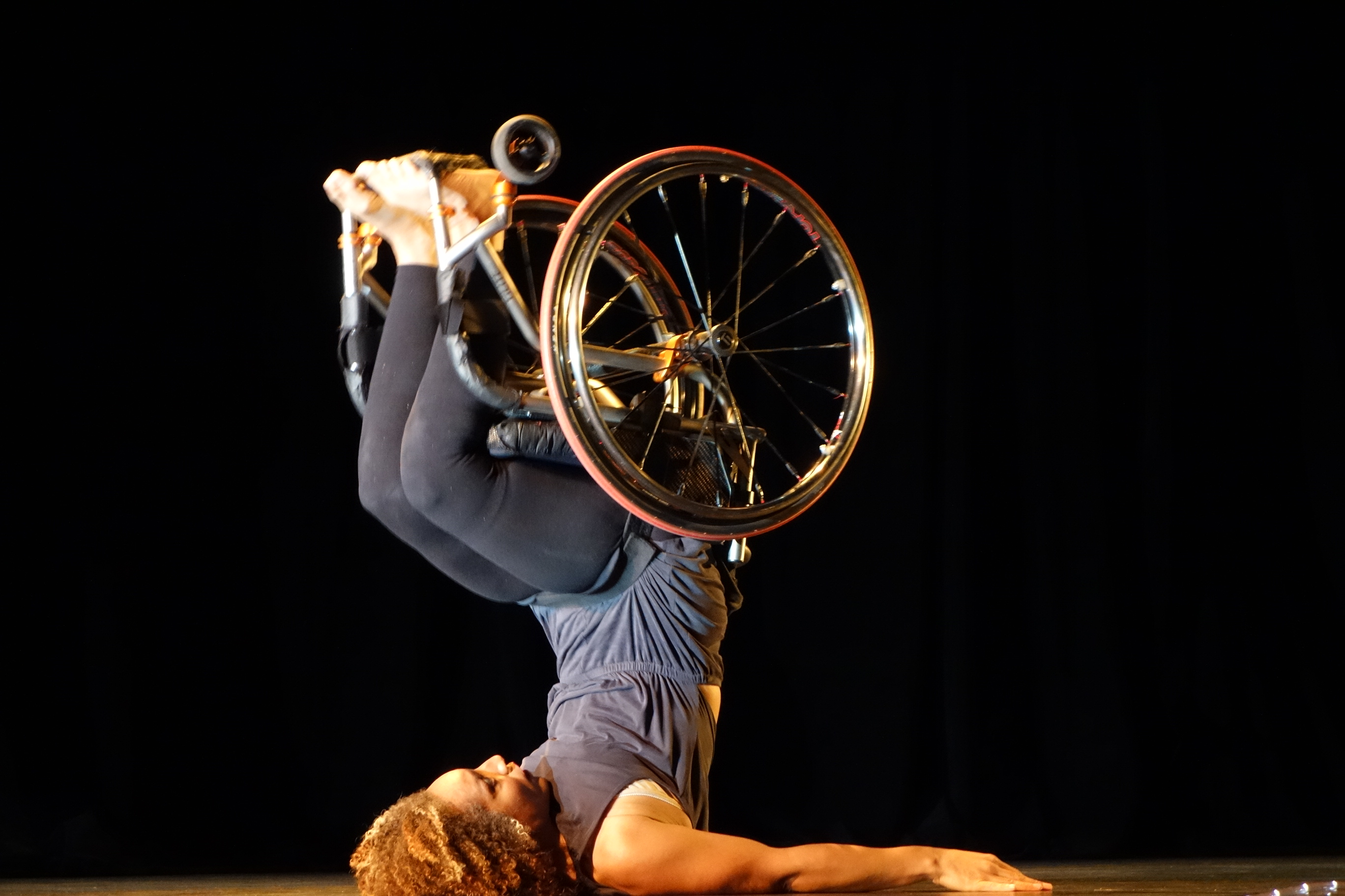 "So, I will wait" - Performed and choreographed by Alice Sheppard. Photograph taken at "Counter Balance VI - An integrated dance concert that celebrates 25 years of the Americans with Disabilities Act," presented by Access Living, Bodies of Work and Momenta Dance Company, at the National Museum of Mexican Art, 1852 West 19th Street, Chicago, Illinois. September 19, 2015. View more of my photos at